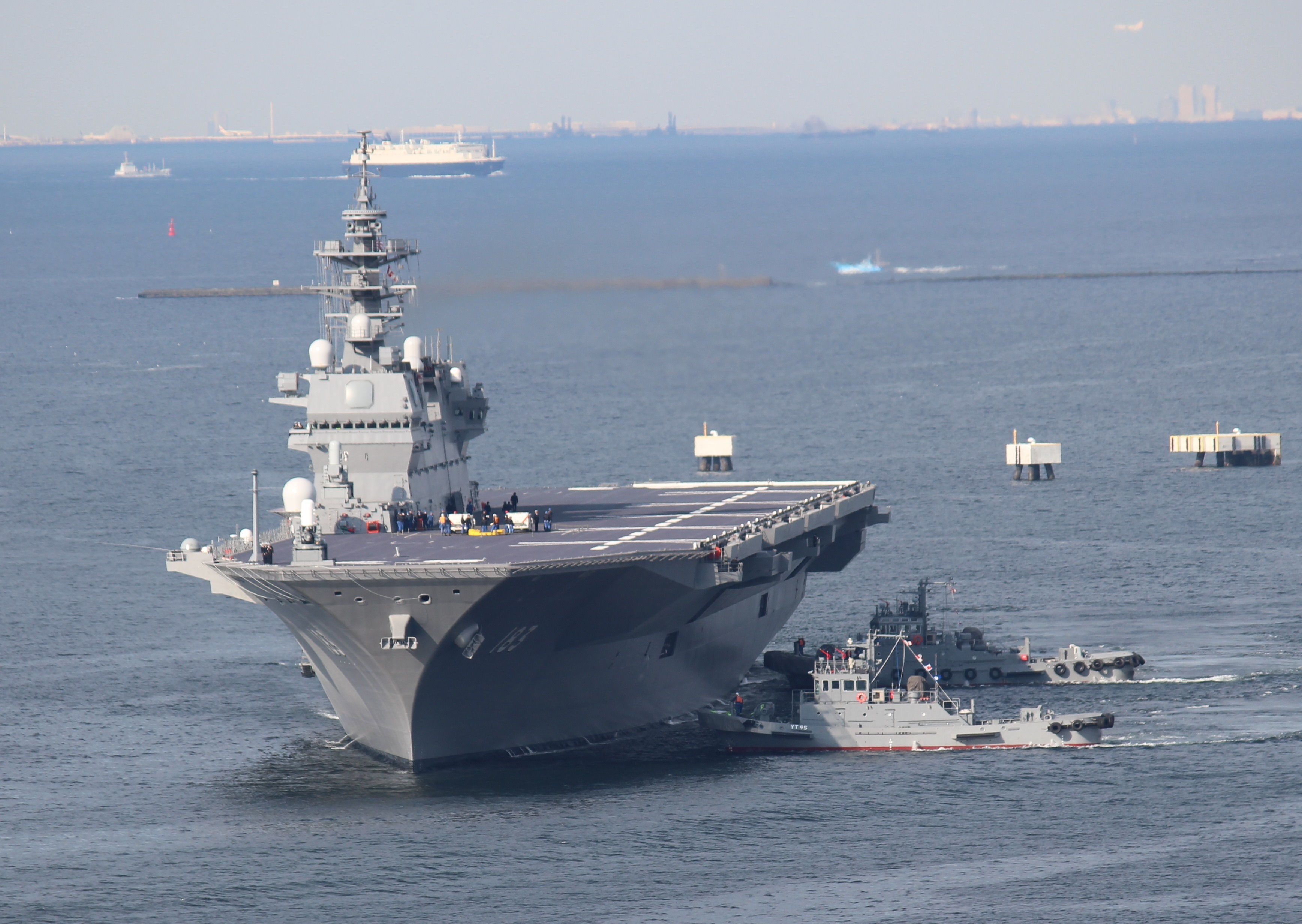 JS Izumo(DDH-183)